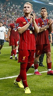 Liverpool vs. Chelsea, 2019 UEFA Super Cup